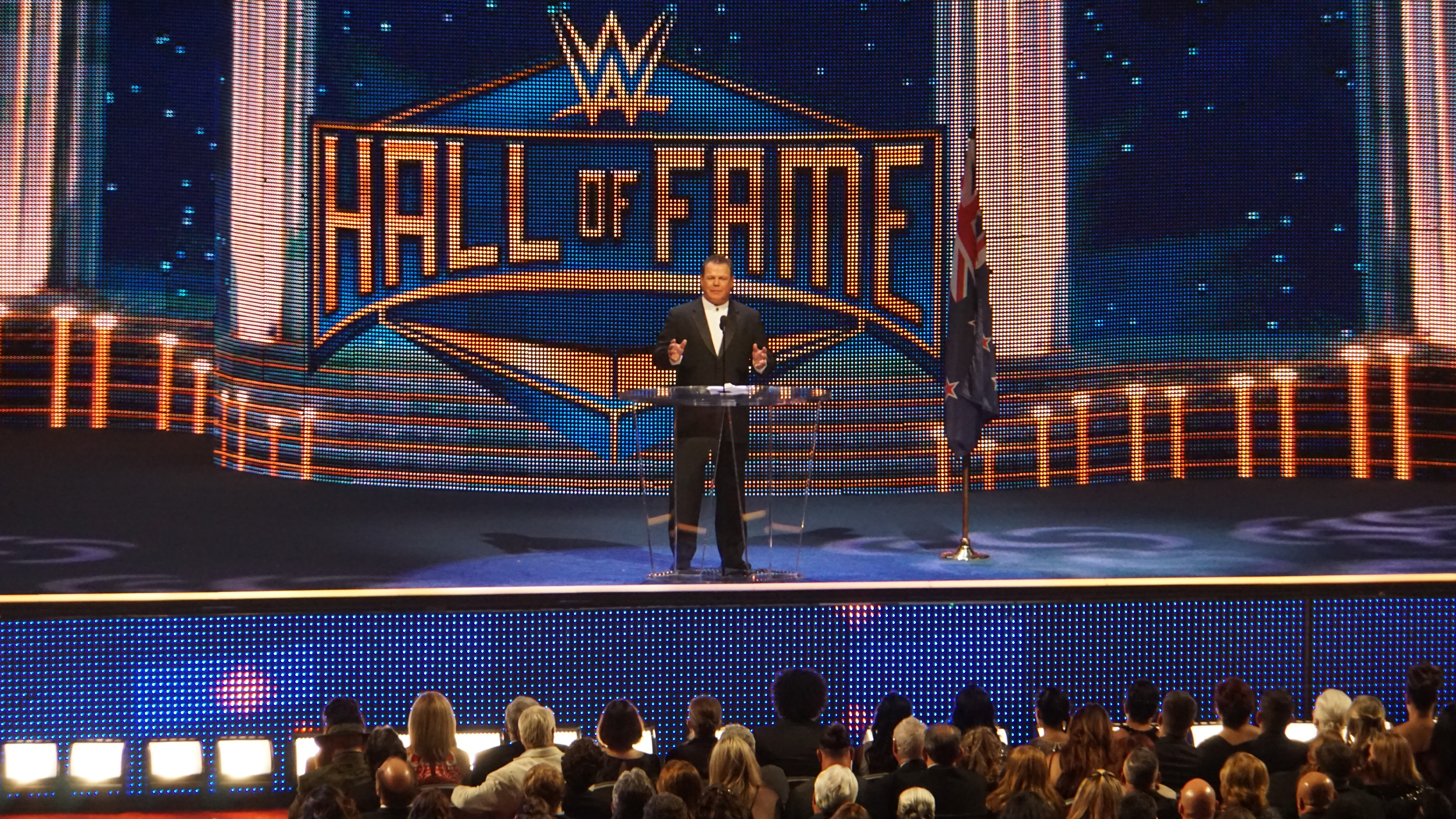 WWE Hall Of Fame 2015